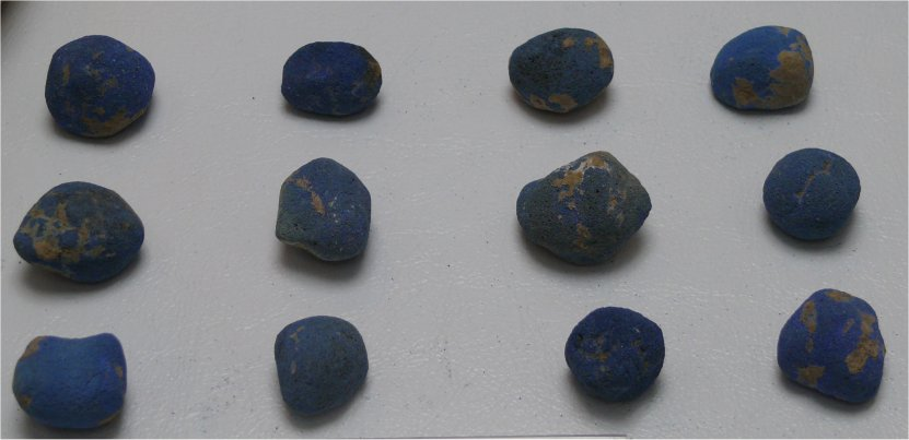 Azur Color Samples on Mud Walls, Persepolis Museum, Iran